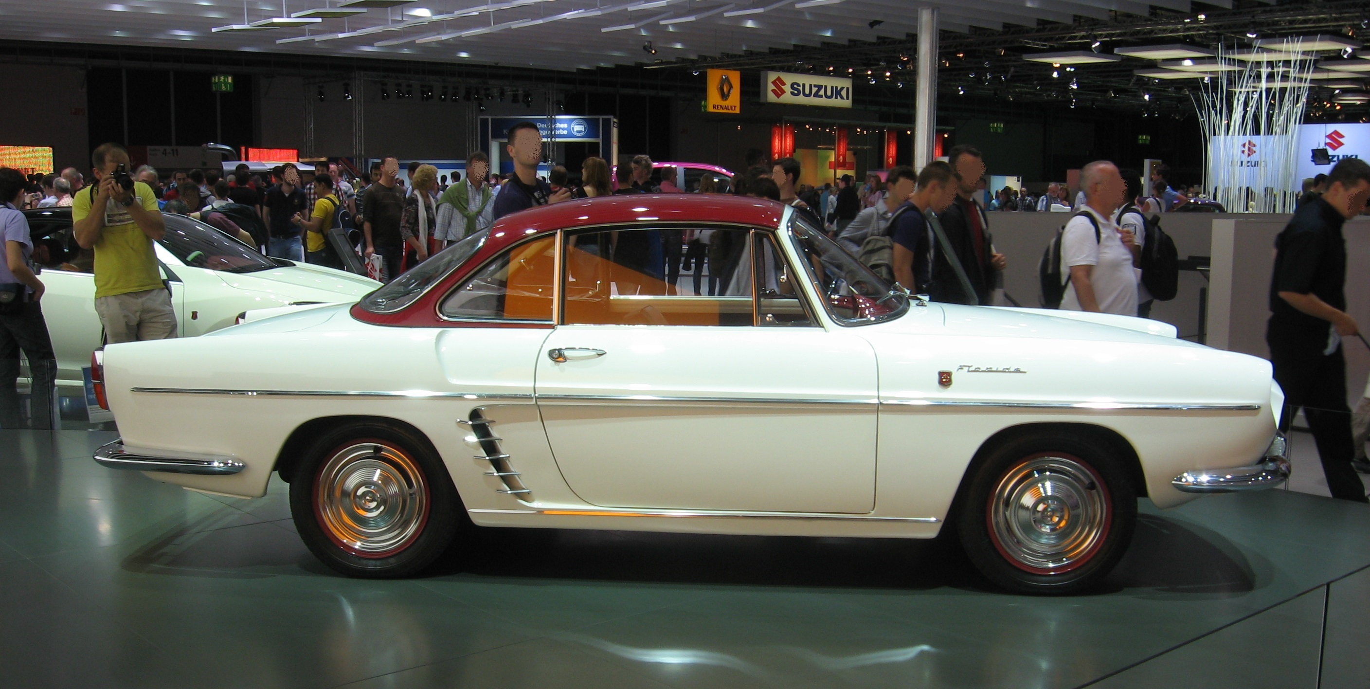 Subject: Renault Floride Author: Luc106 Date:September 17th, 2011 Event: IAA 2011 Place/Country: Frankfurtermesse, Frankfurt am Main (Deutschland) I release all rights in the public domain. Licensing